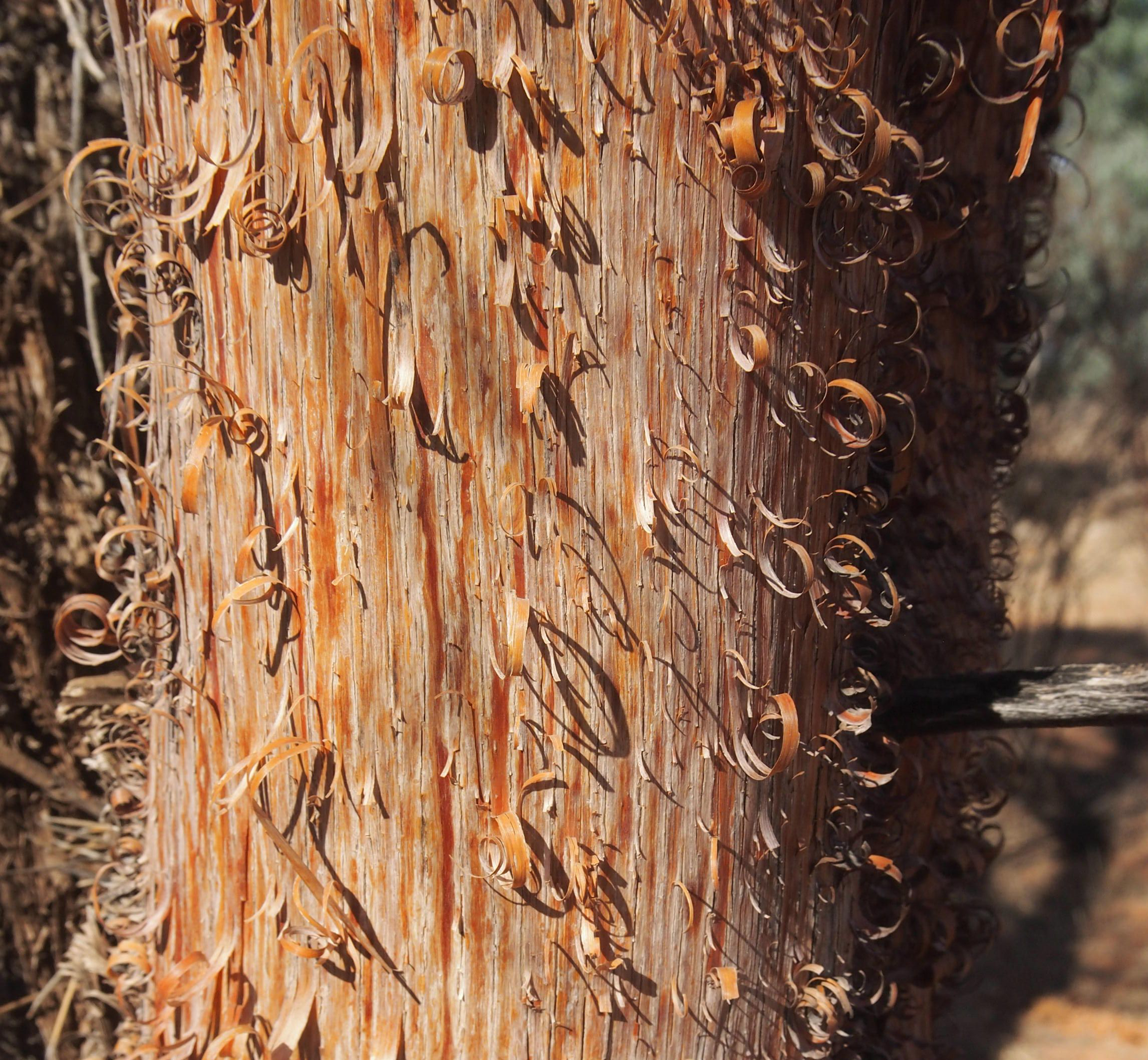 Acacia cyperophylla bark